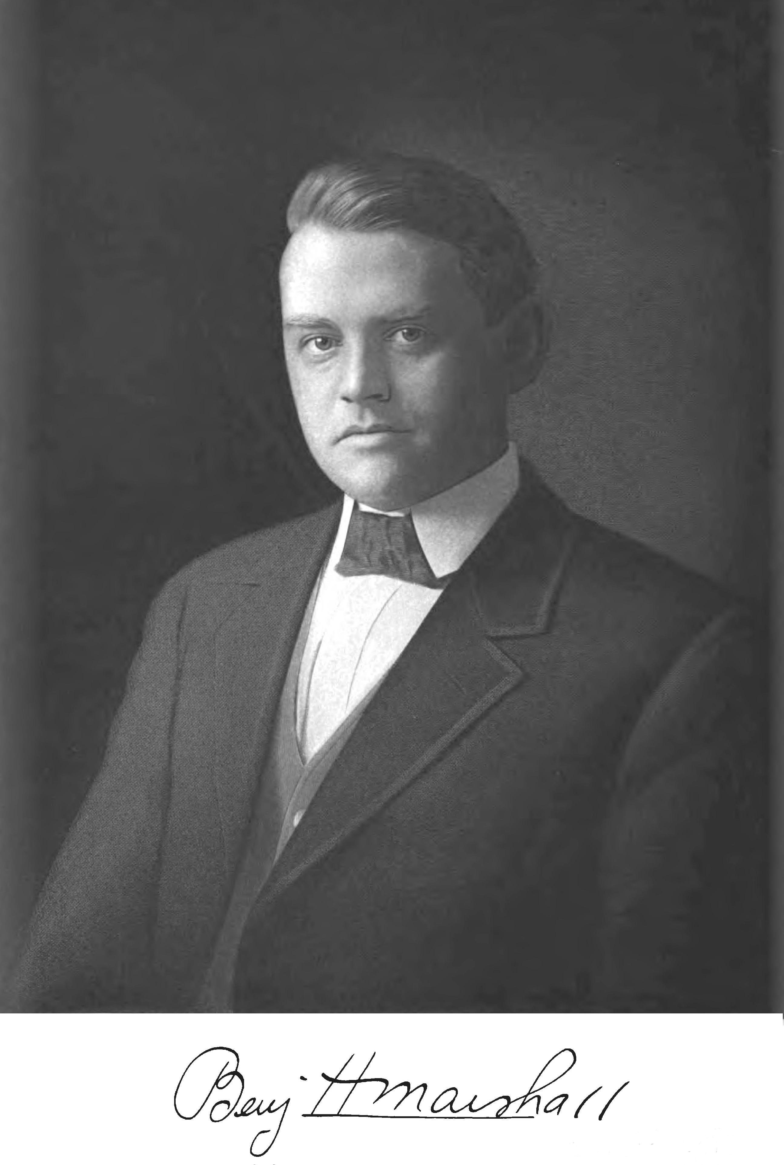 Benjamin Marshall (May 15, 1874 – June 19, 1940) was an American architect.